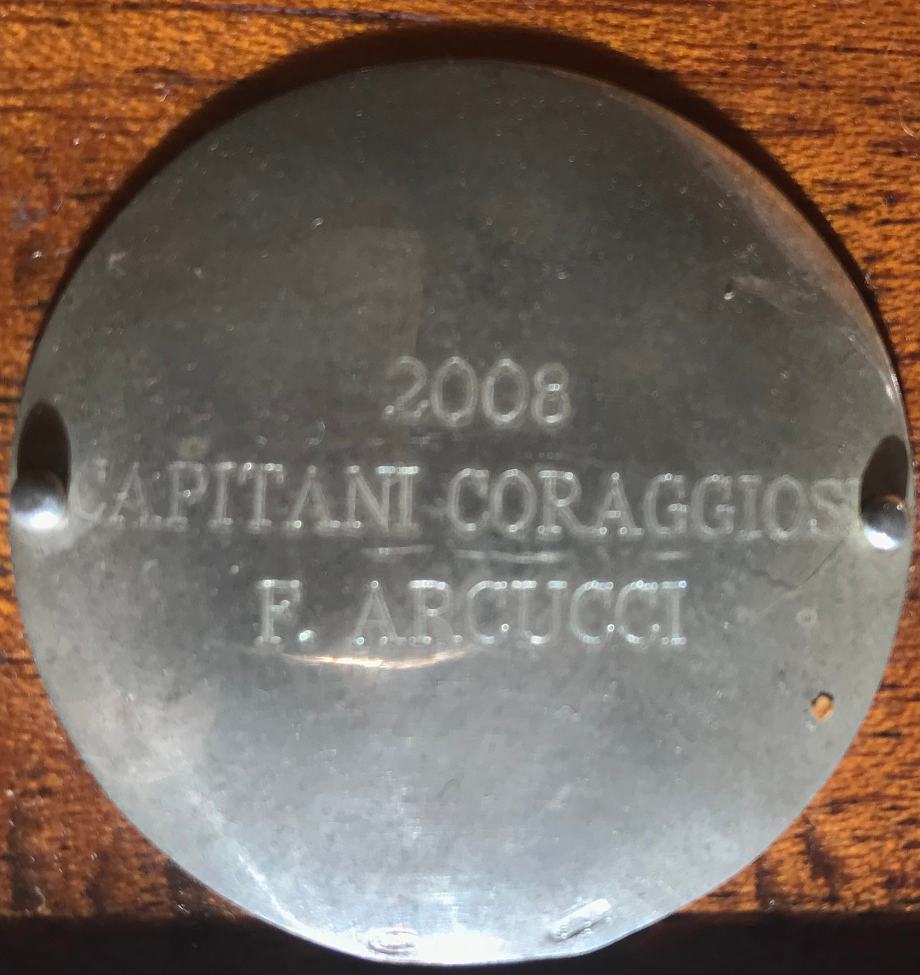 Patch on the Trophy